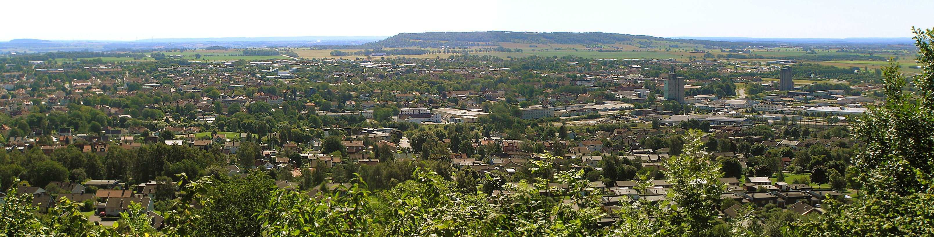 Falköping, Sweden. Photo taken towards south-east, from Mösseberg mountain. In the background Ålleberg mountain and (to the far left) Gisseberget.